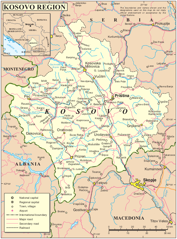 Map of Kosovo